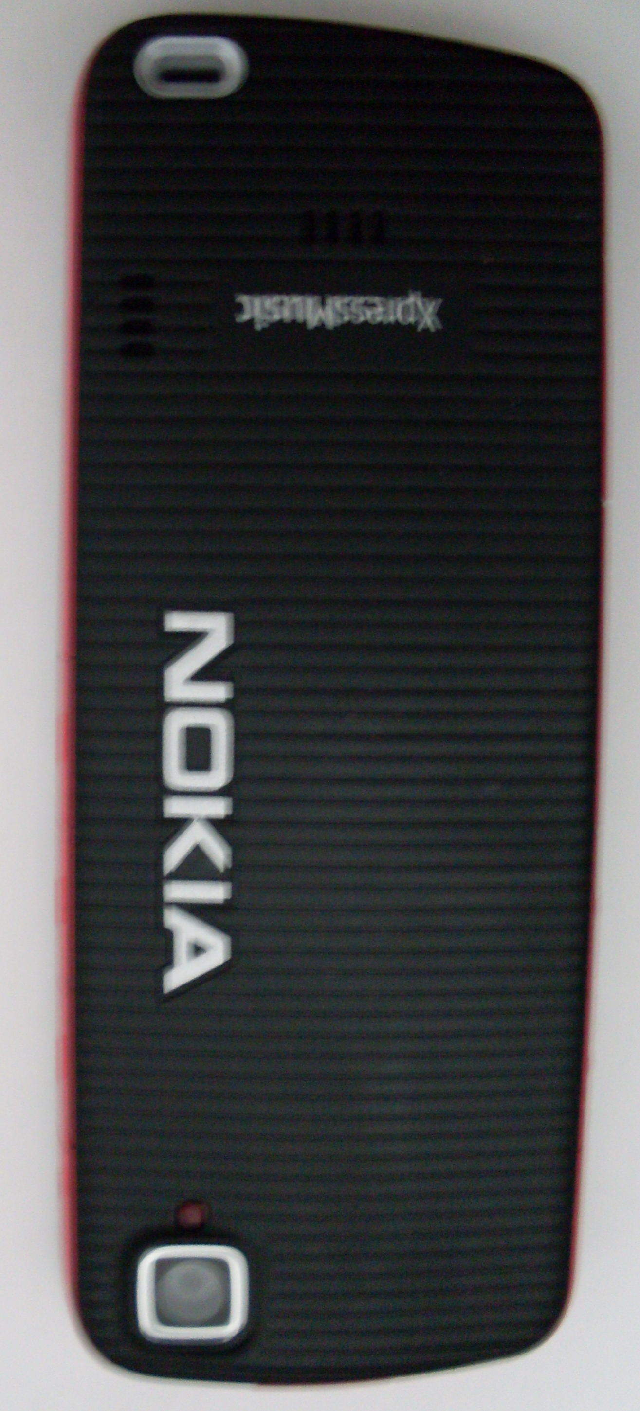 Nokia 5220 mobile phone, back view